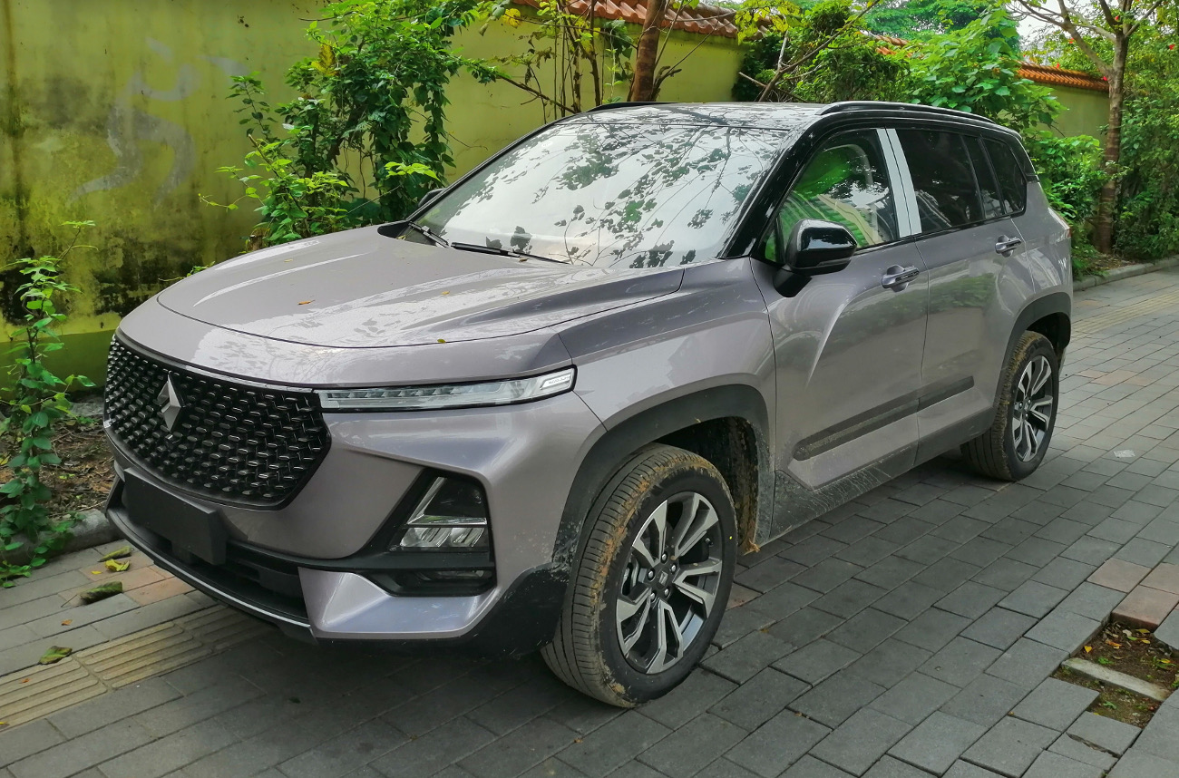 Baojun RS-5 photographed in Guangzhou, Guangdong province, China.